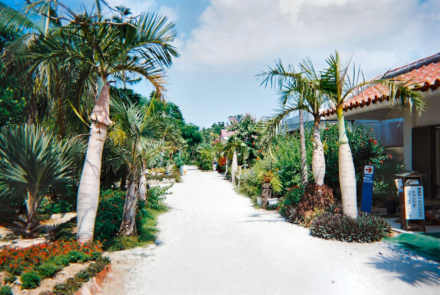 Yuhu island Japan August 2007.